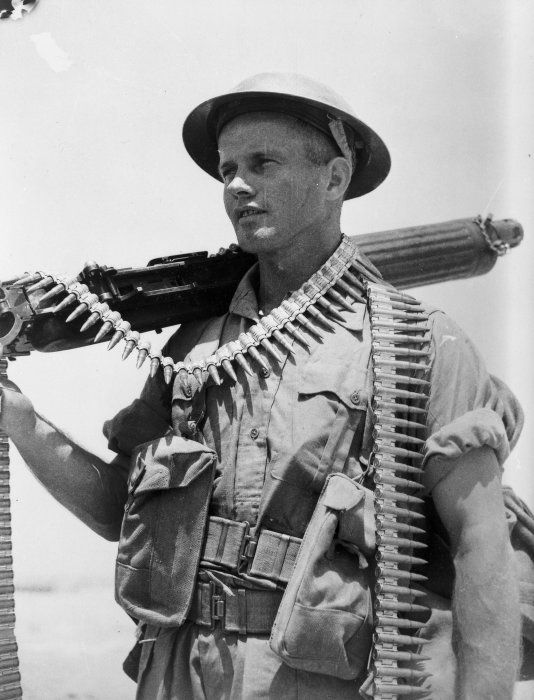 New Zealand soldier Jim Dempsey from Bren Carrier Platoon, 24 Battalion, at Helwan Camp, Egypt, in 1941. He holds ammunition and a Vickers gun. Photographer unidentified.Note on back of file print reads : Jim Dempsey picked up a Vickers gun in Greece and managed to bring it off with him when he was evacuated. In spite of difficulties the carrier platoon retained possession of this gun until it was lost in action in November 1941. It was used to good effect at Sidi Resegh. The well known photograph reproduced on the back cover of the official survey "Campaign in Greece" shows Demsey with his gun. The belts of ammunition hanging over his shoulders were recuited for the purposes of the photograph and are Browning, not Vickers ammunition. The photograph was taken in Helwan Camp shortlty after the evacuation from Greece." Information from Sgt Jim McDonald (then section commander No 1 Sec bren Carrier Platoon 24 N